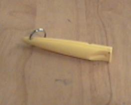 A yellow dog whistle